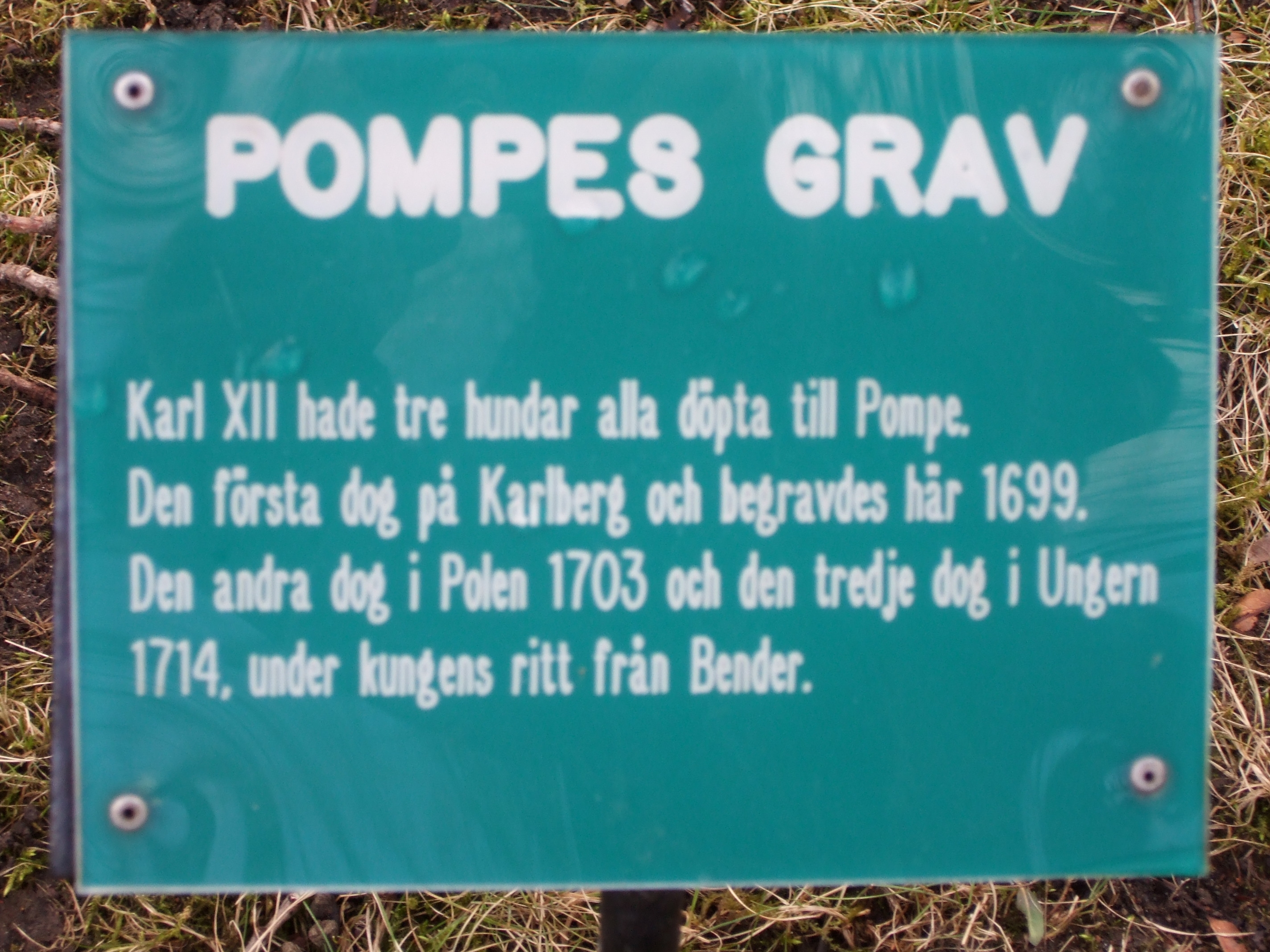 Information sign about Pompe in Karlbergs slottspark